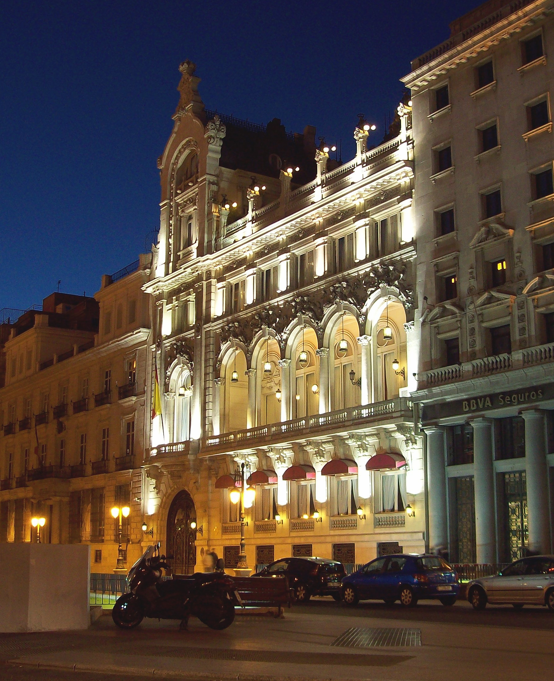 Night view of Casino de Madrid (Spain).